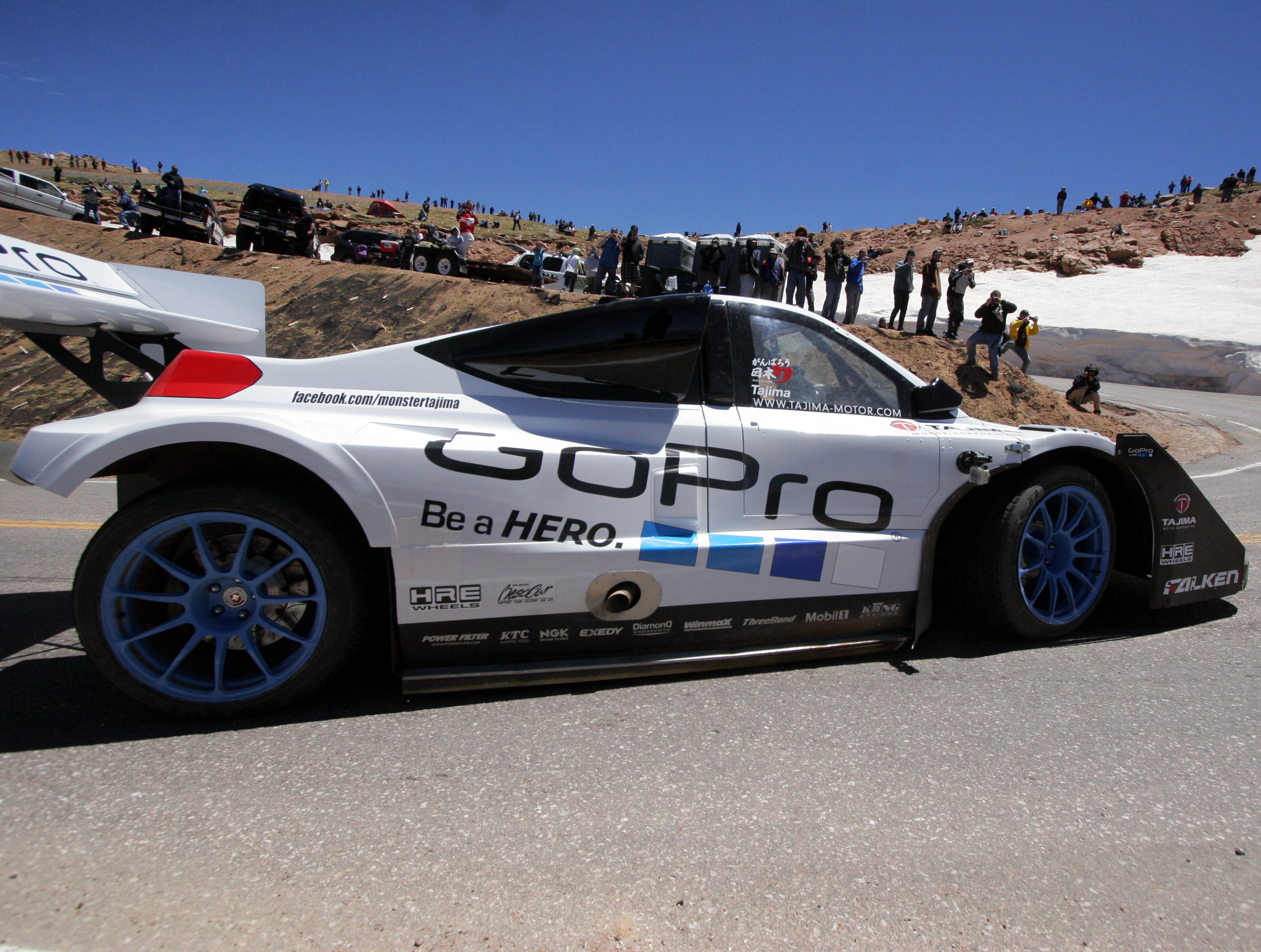 Nobuhiro Tajima passing Devil's Playground en route to becoming the first driver to break the 10-minute barrier in the 2011 Pikes Peak International Hill Climb